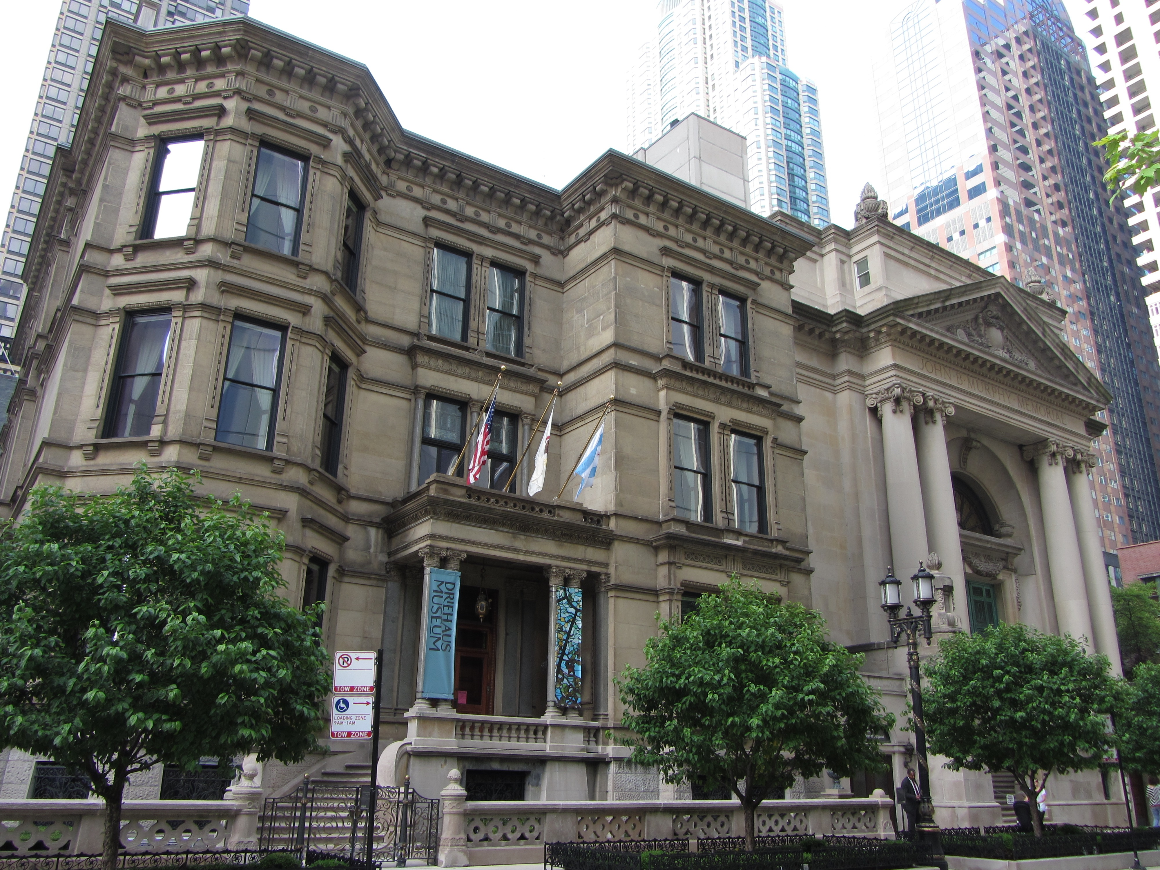 Nickerson Mansion and Murphy Auditorium in Chicago. The mansion is now the Driehaus Museum and the auditorium is an event and meeting space